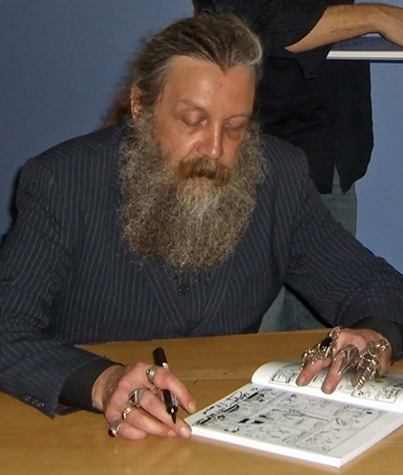 I took this photo, originally posted by me on flickr Mirka 05:05, 6 December 2006 (UTC)